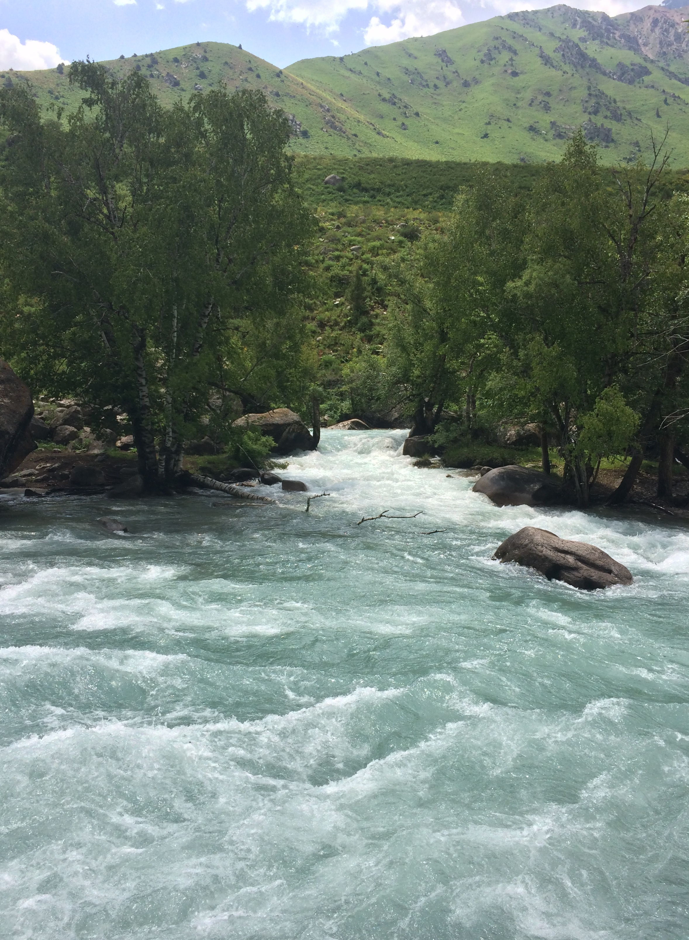 Beshtor flows in Oygaying Oʻzbekcha/ўзбекча: Beshtorsoy Oygayingga quyiladi